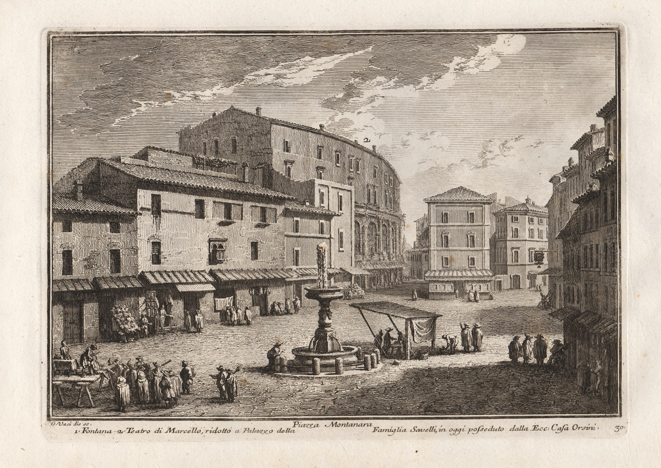 1) Fountain; 2) Teatro di Marcello (Palazzo Savelli Orsini).